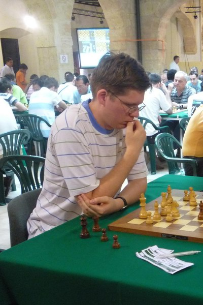 GM Vladimir Malakhov Russia, Villarrobledo 2008